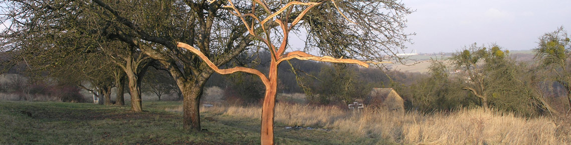 New Net